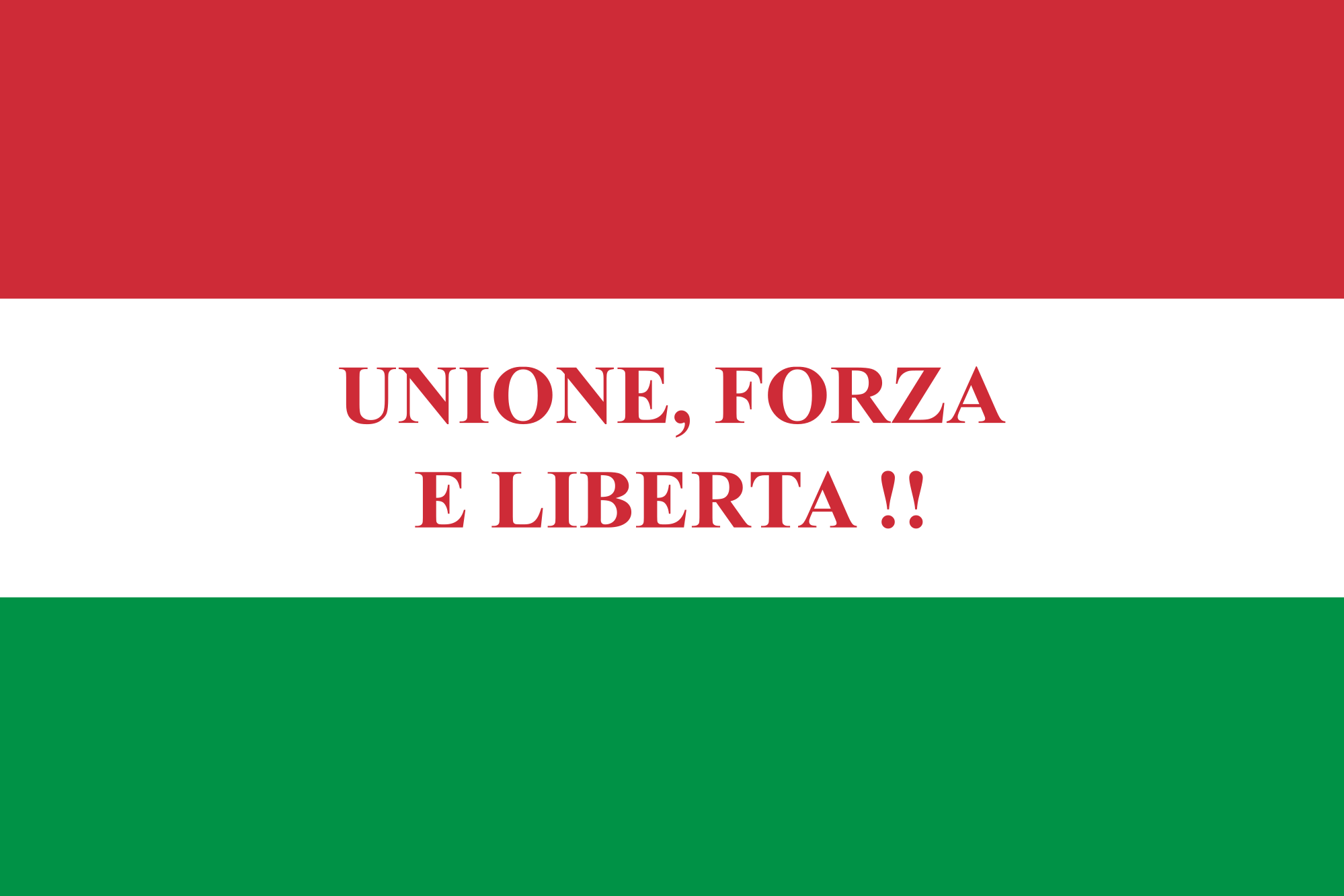 Banner of Giovine Italia.